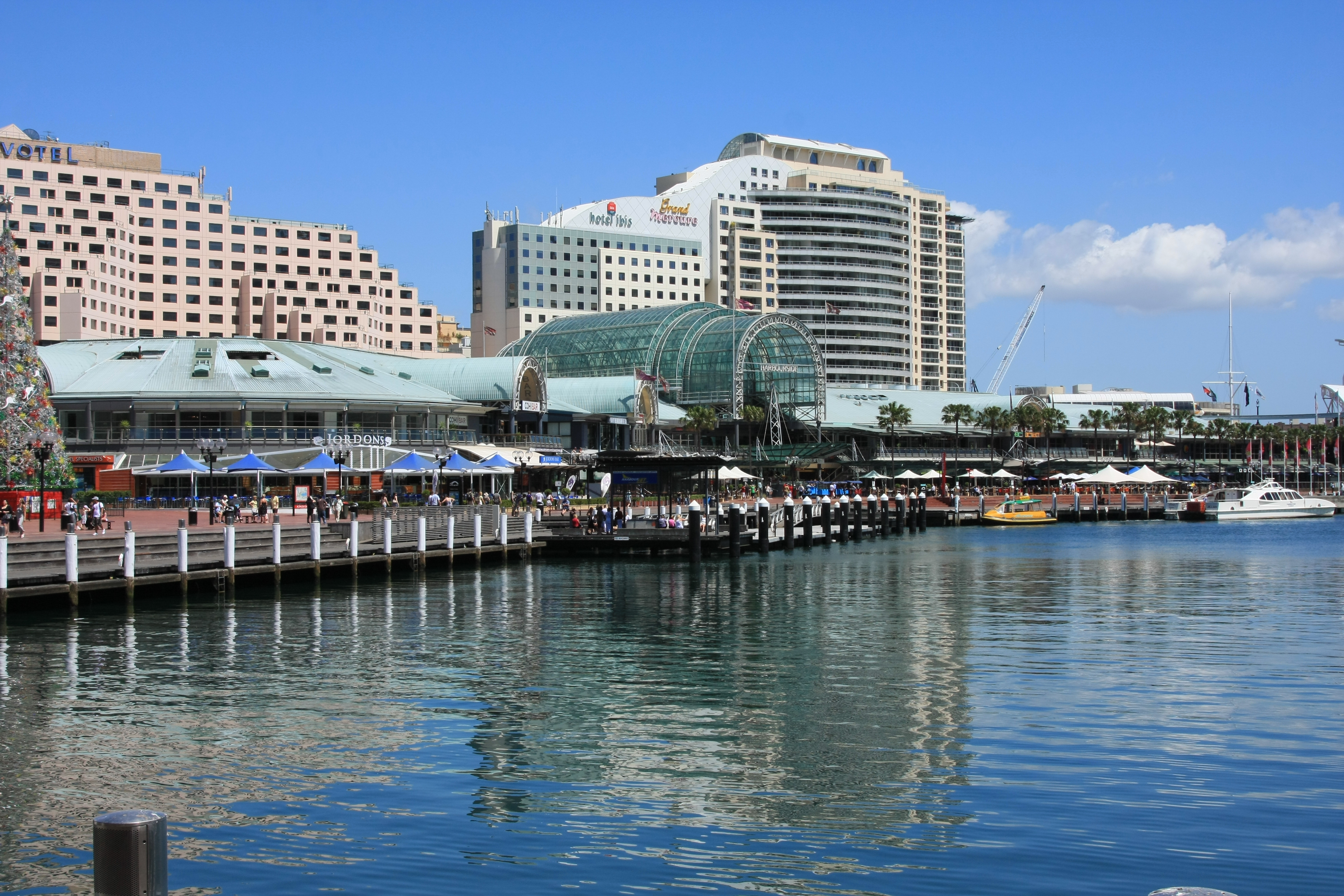 Darling Harbour, New South Wales